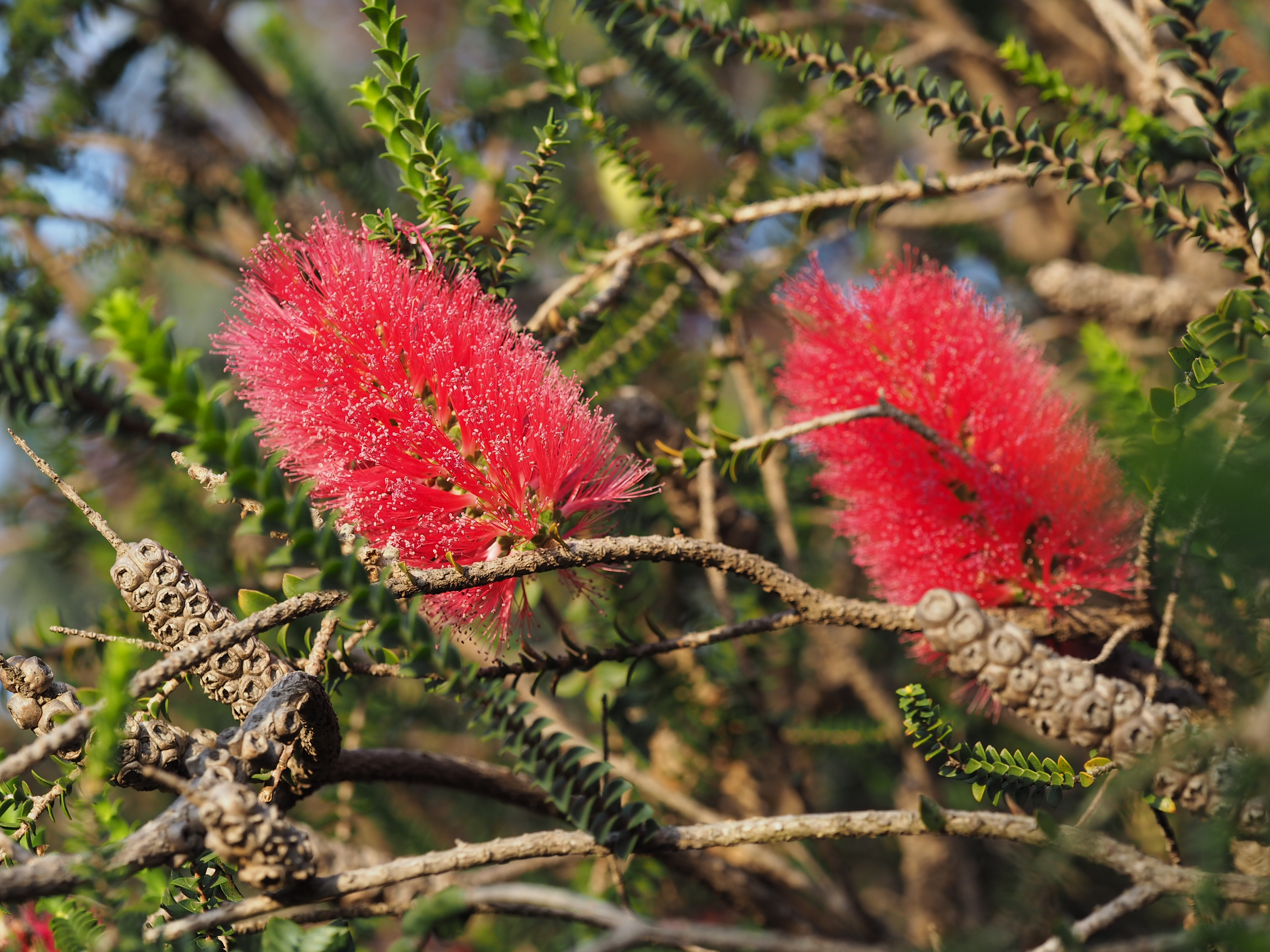 Melaleuca coccinea growing as a street tree in Ravensthorpe